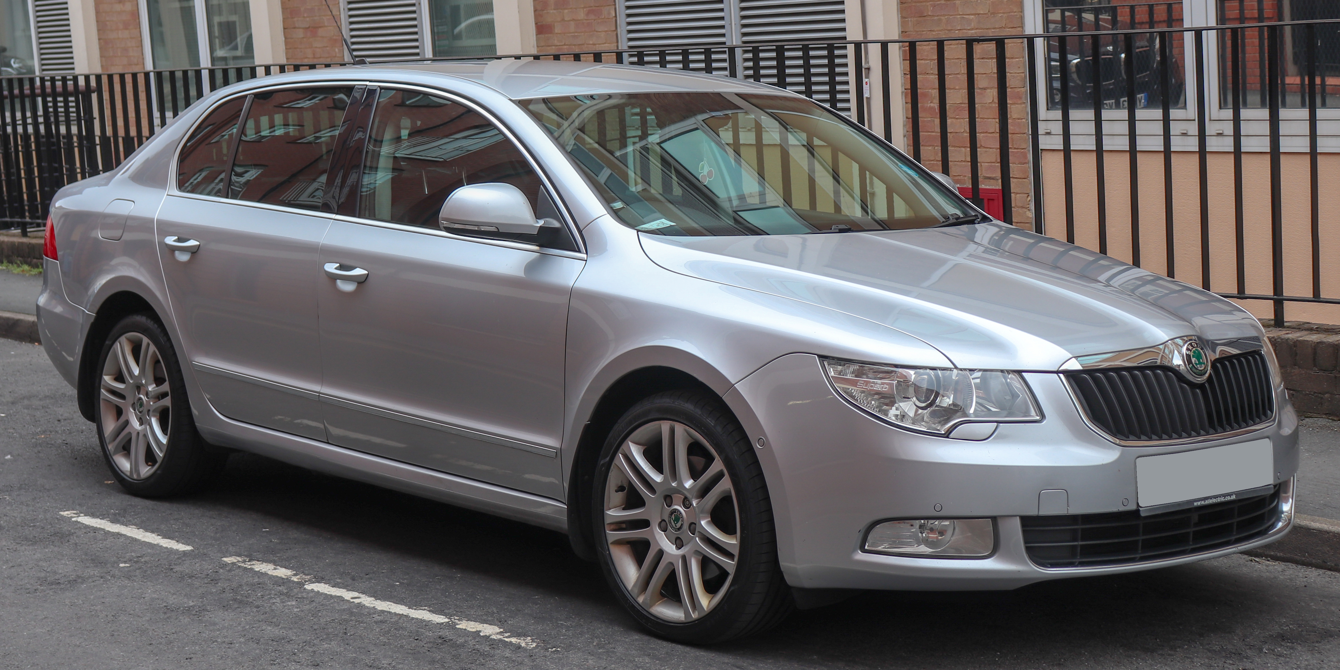 2009 Skoda Superb Elegance CRTDi Automatic 2.0 Front Taken in Leamington Spa